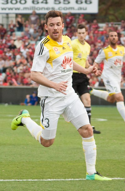 Reece Caira in Wellington Phoenix Away Strip, 2013-14 Season